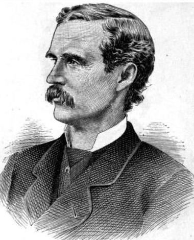 Samuel Henry Miller (Pennsylvania Congressman)